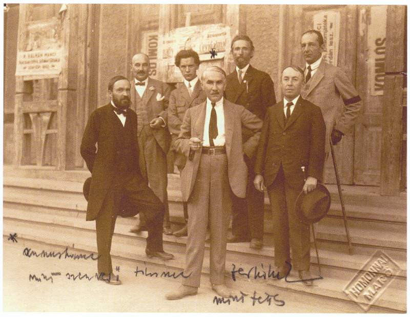 Hungarian writers and poets in front of the Hollósy Komélia Theatre, Makó. First row: Gyula Juhász, Ferenc Móra and Ödön Réti. Back row: János Espersit, Attila József, Lajos Károlyi and Endre Vertán. Photograph by Nándor Homonnai Petőfi Literary Museum LocationBudapest V. District, HungaryCoordinates47° 29′ 29.73″ N, 19° 03′ 29.65″ E Established1954Web pagepim.huAuthority control : Q1234343 VIAF: 152132060 ISNI: 0000 0001 2186 691X GND: 13840-X SUDOC: 02903941X BNF: 12074898m institution QS:P195,Q1234343 Accession number: 2423